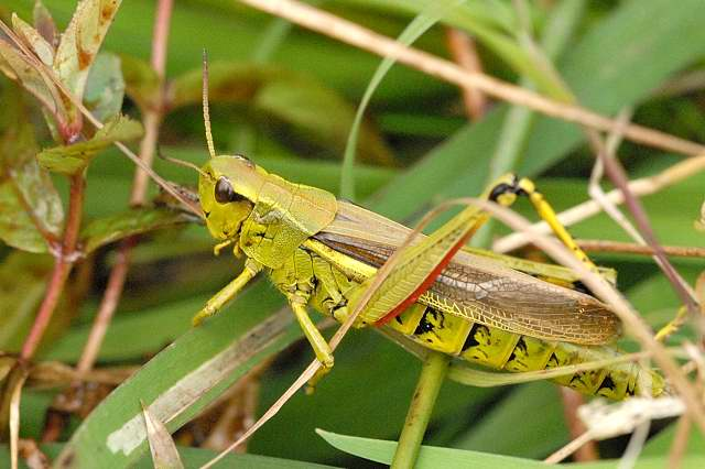 Stethophyma grossum from Commanster, Belgian High Ardennes .